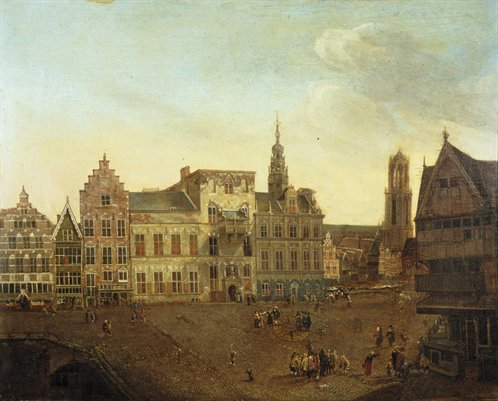 View of the Stadhuisbrug, Utrecht. From left to right, the houses "Leeuwenstein", "Nijenborg", "De Gulden Arend", "Klein Lichtenberg", "Groot Lichtenberg" and "Hasenberg" (with clock tower). On the right in the background is the Dom tower and the Fish market "Vismarkt".